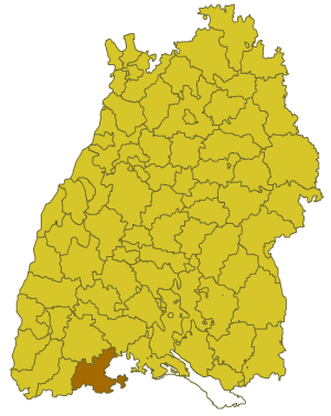 Map of Baden-Württemberg with the former county of Waldshut before 1973